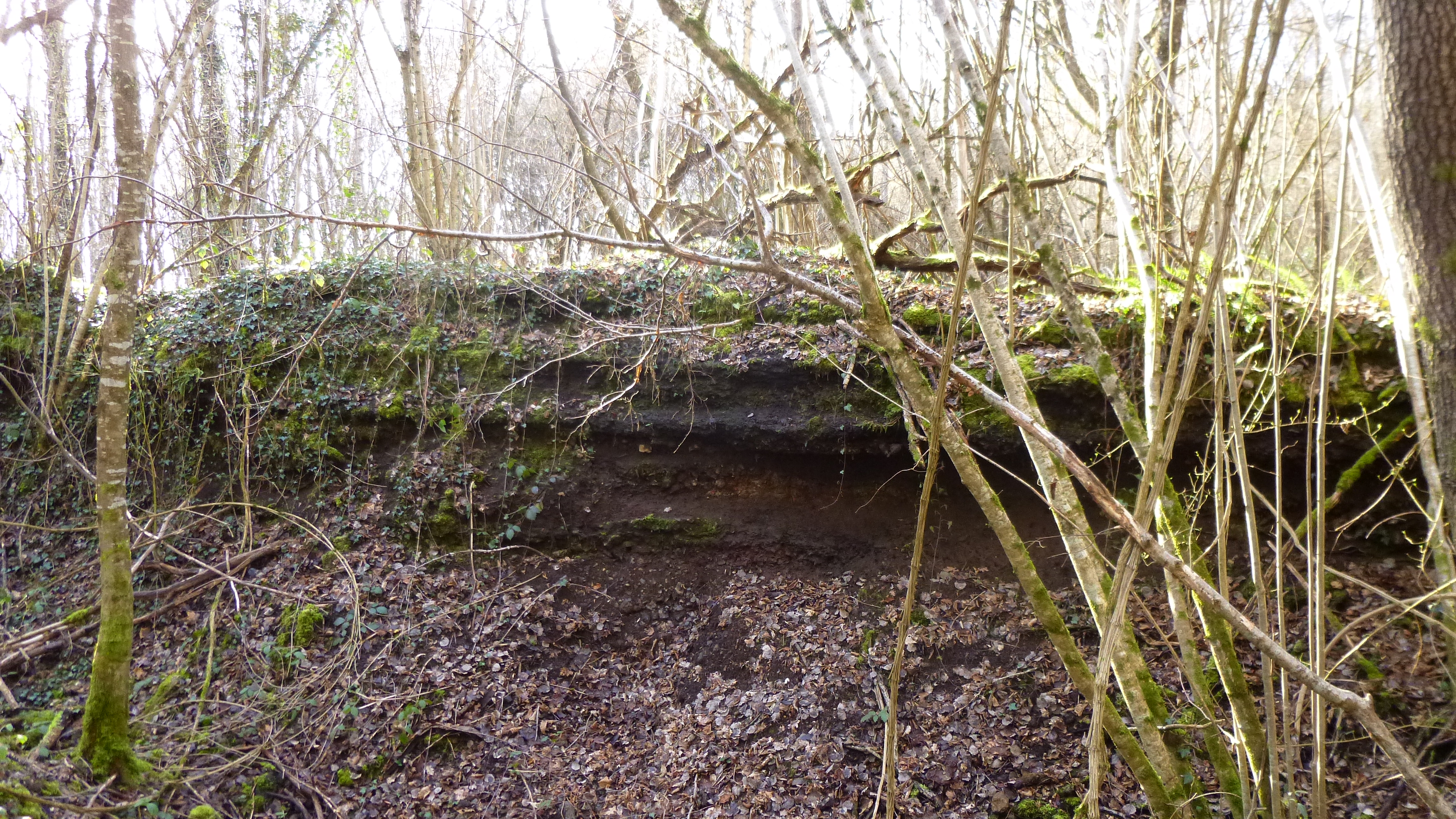 The "ferrier", Tannerre-en-Puisaye, Yonne, Burgundy, France. A mound of slag has been mined for reuse of the slag. Strata clearly visible.